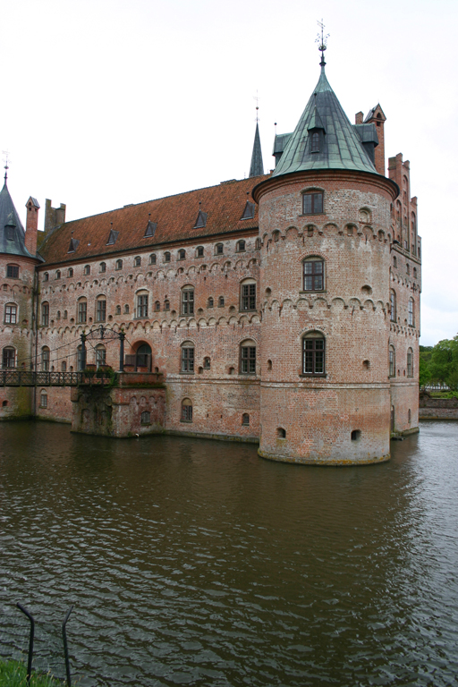 Photo by User:Angelbo taken sept. 2006. Caption: Egeskov Castle exterior view